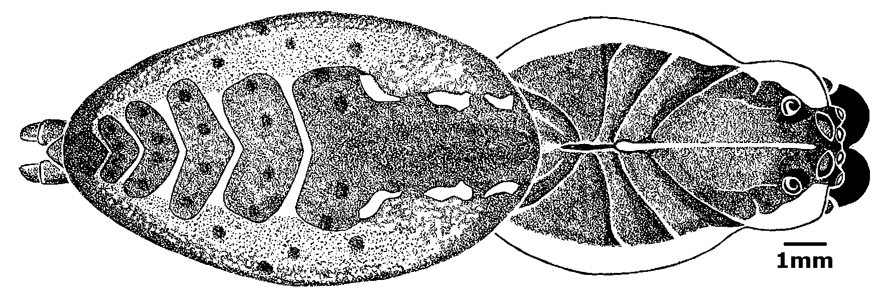 Sosippus agalenoides, female, syntype from Puntarenas, Costa Rica, 1909.